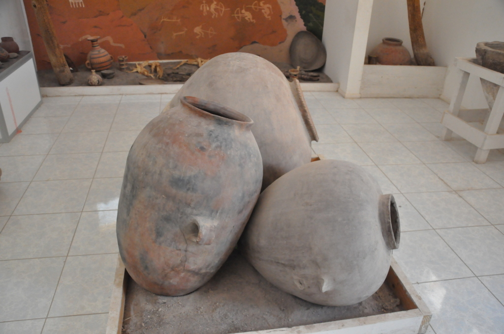 Codpa Village, commune of Camarones, Chile